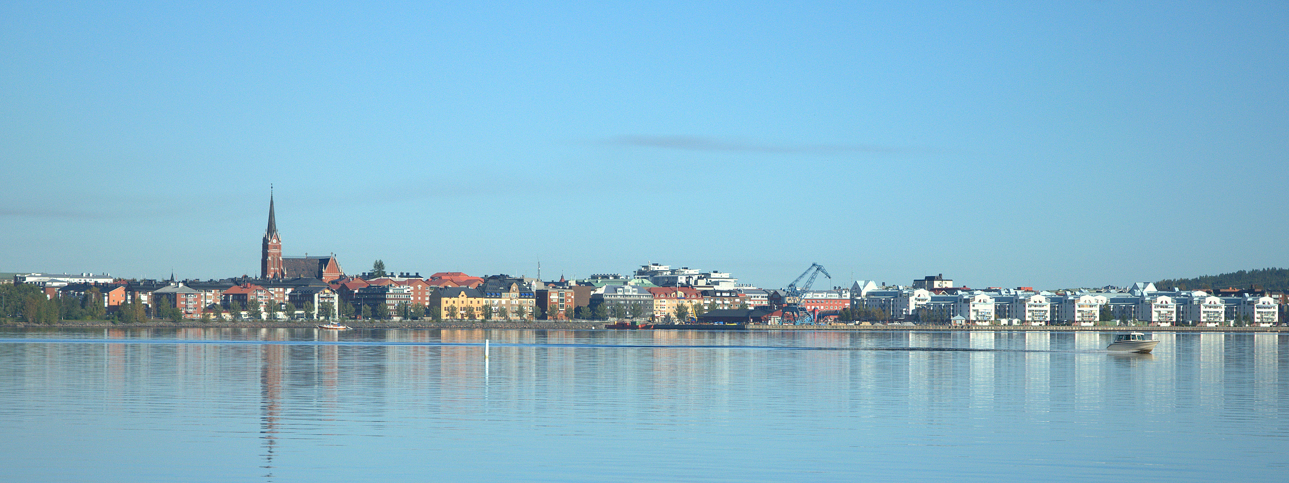 Luleå 19th of September 2011 viewed towards the South Harbour